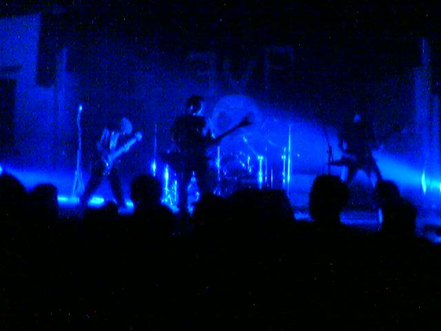 Image of Bahrain thrash metal band Motör Militia performing at the second Friendly Violent Fun festival, FVF2.